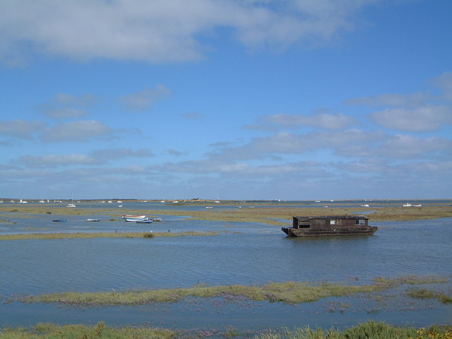 Salt marshes near Brancaster Staithe. Shallow creeks & salt marshes are common along this stretch of coastline. Sailing is a popular pastime in the area.